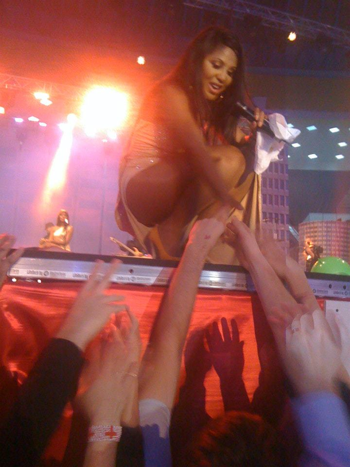 Tony Braxton performing in Romania during New Year's Eve 2011.